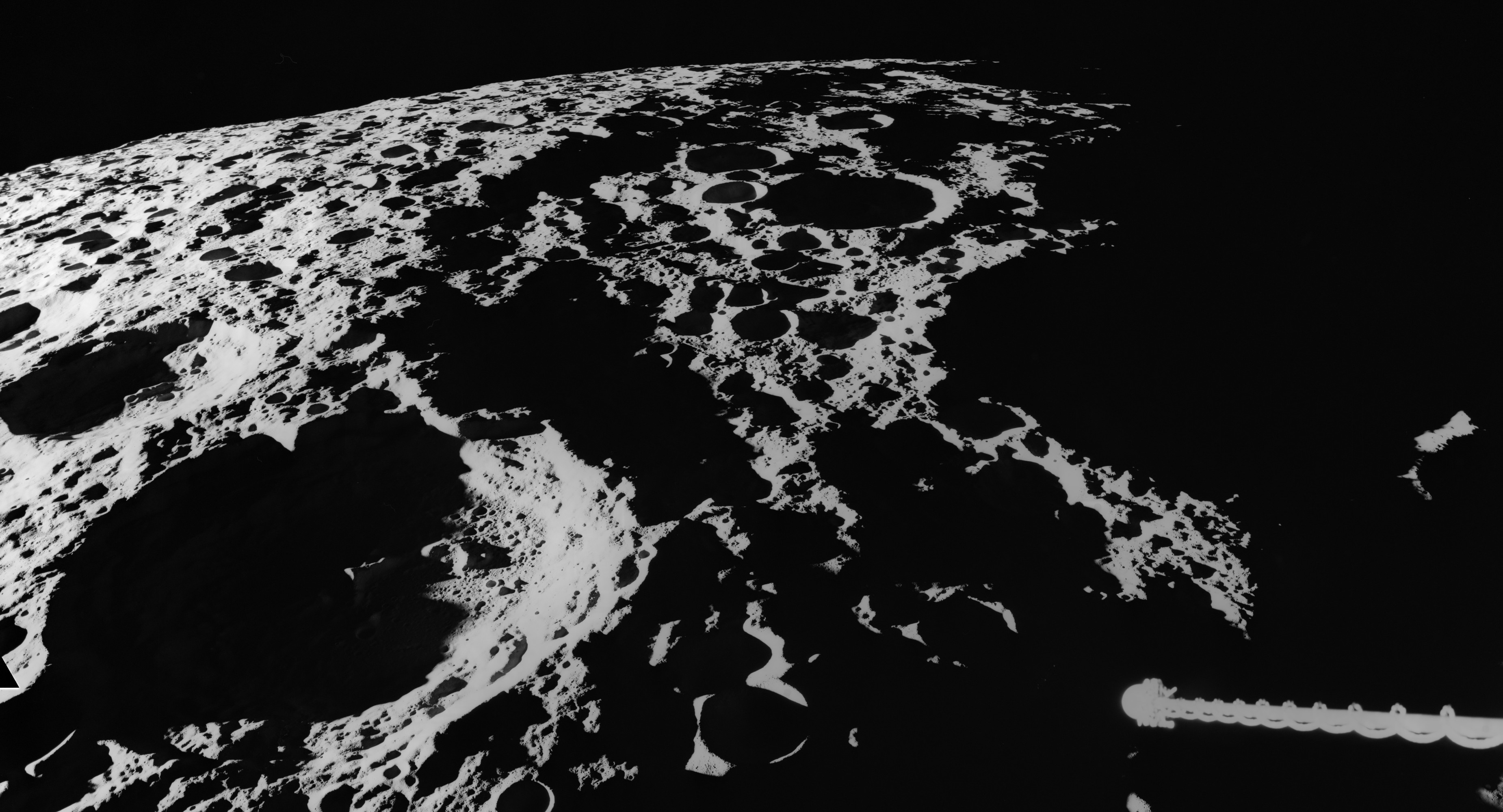 Oblique view of Spencer Jones in lower left, and the west edge of the Freundlich-Sharonov Basin, on the far side of the moon. This is at the sunset terminator, facing north, and the gamma-ray spectrometer of the spacecraft is visible in lower right. Spacecraft altitude 114 km, sun elevation 1 deg., on Revolution 27 of the Apollo 16 mission.